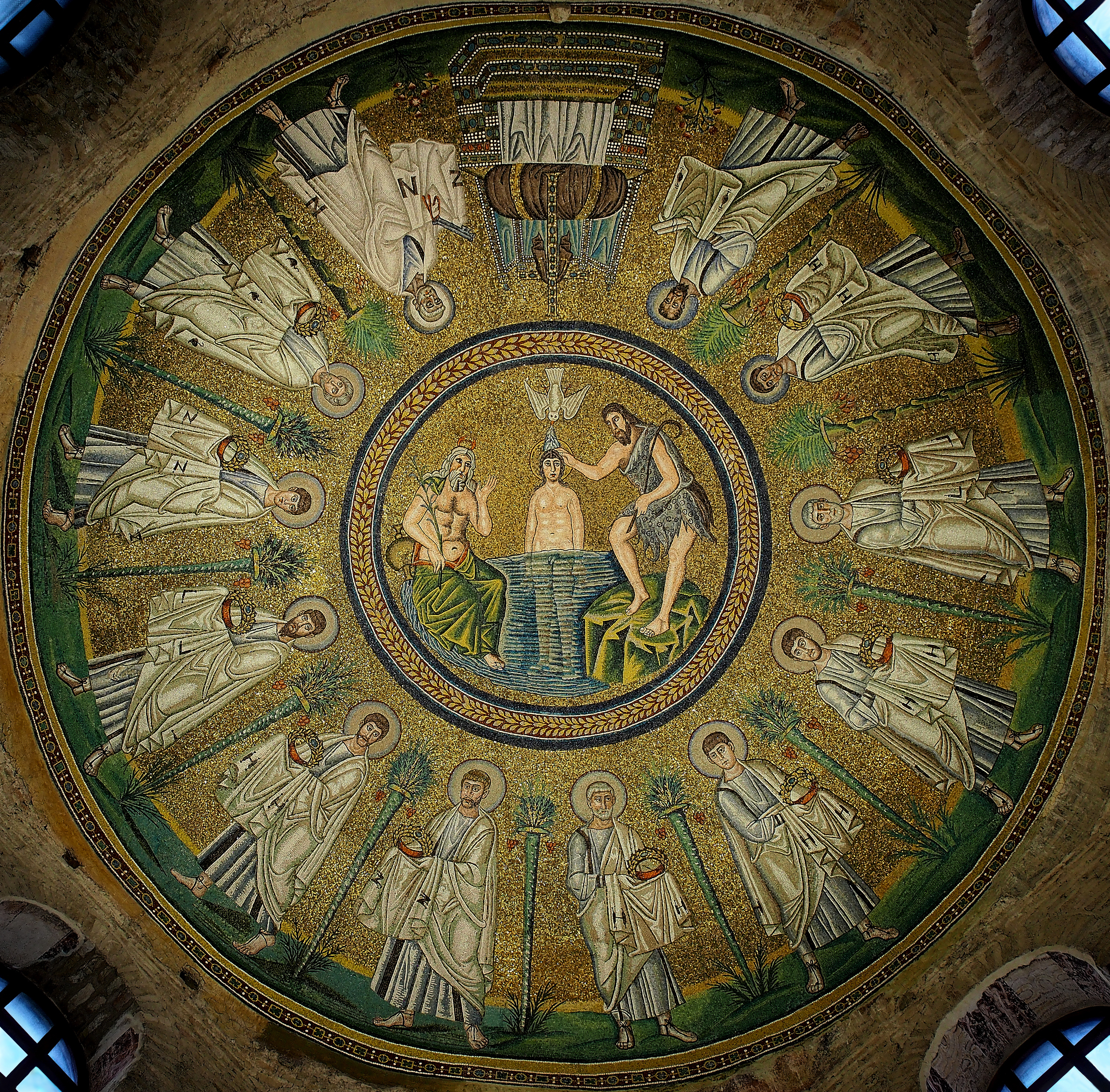 Ceiling mosaic of Arian Baptistry. Built in 5-6 century A.D. by Ostrogothic King Theodoric the Great in Ravenna, Italy. Mosaics are depicting the baptism of Jesus by Saint John the Baptist with procession of the Apostles around. UNESCO World heritage site. This photograph was taken with an Olympus E-P5